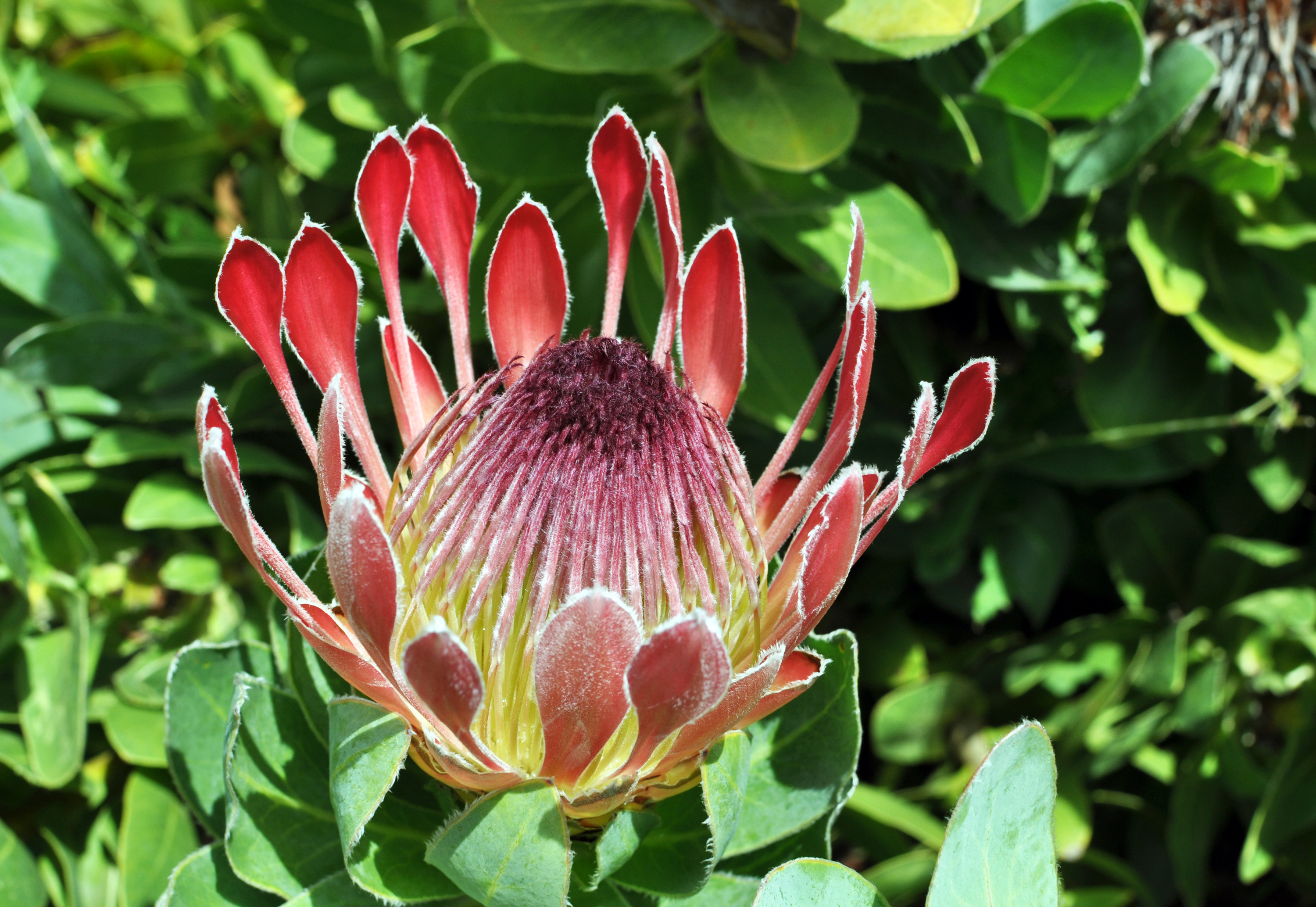 Flower of Protea eximia at Conservatoire botanique national de Brest Conservatoire botanique national de Brest Native nameConservatoire botanique national de BrestLocationBrest, FranceCoordinates48° 24′ 10.35″ N, 4° 26′ 53.58″ W Established1975: established, 1978: opened to publicWeb page Authority control : Q2994486 VIAF: 135879850 ISNI: 0000 0000 9261 8684 LCCN: no95047958 WorldCat institution QS:P195,Q2994486